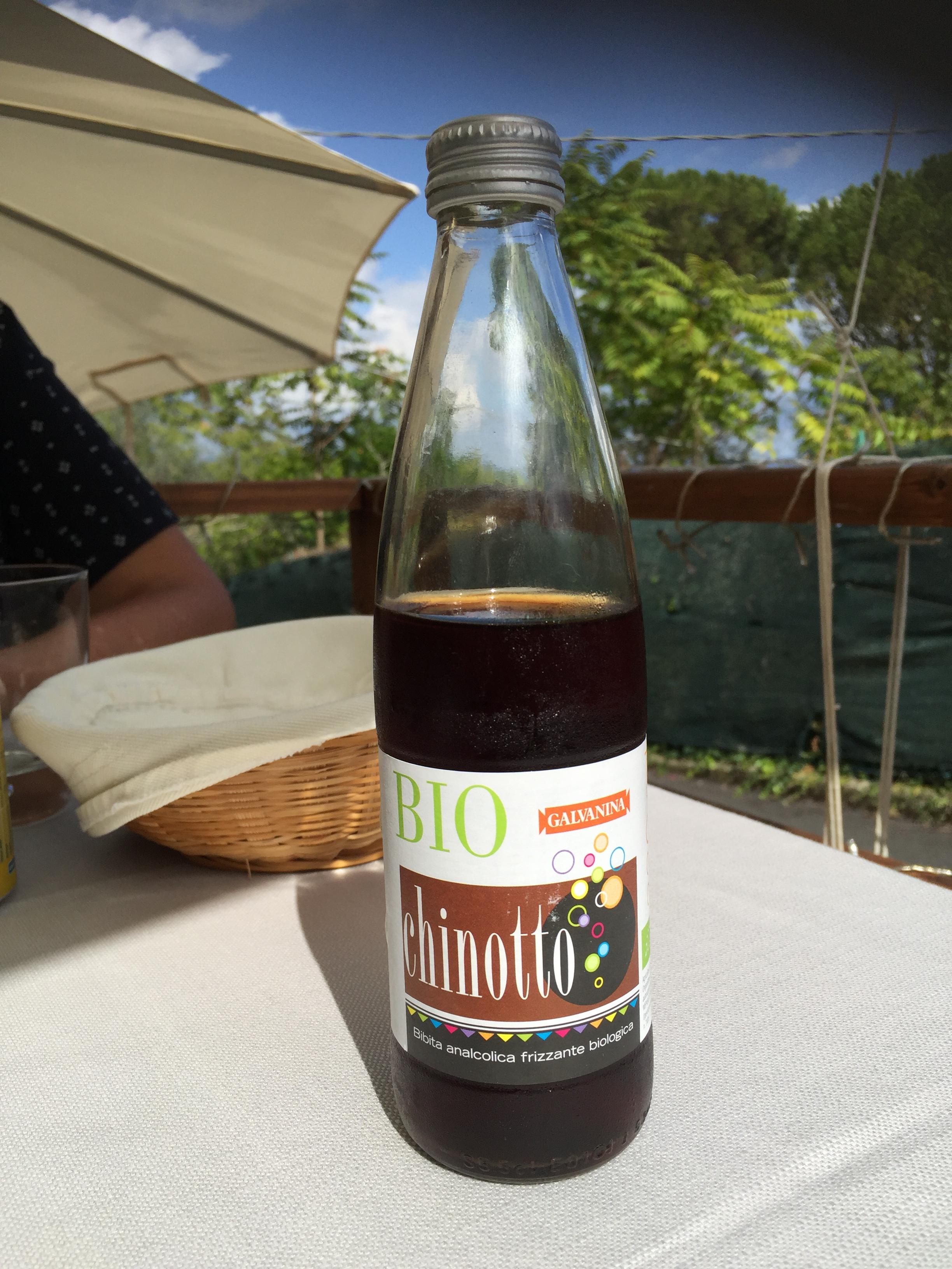 Dit is een biologische chinotto drank gemaakt in Italië door La Galvina